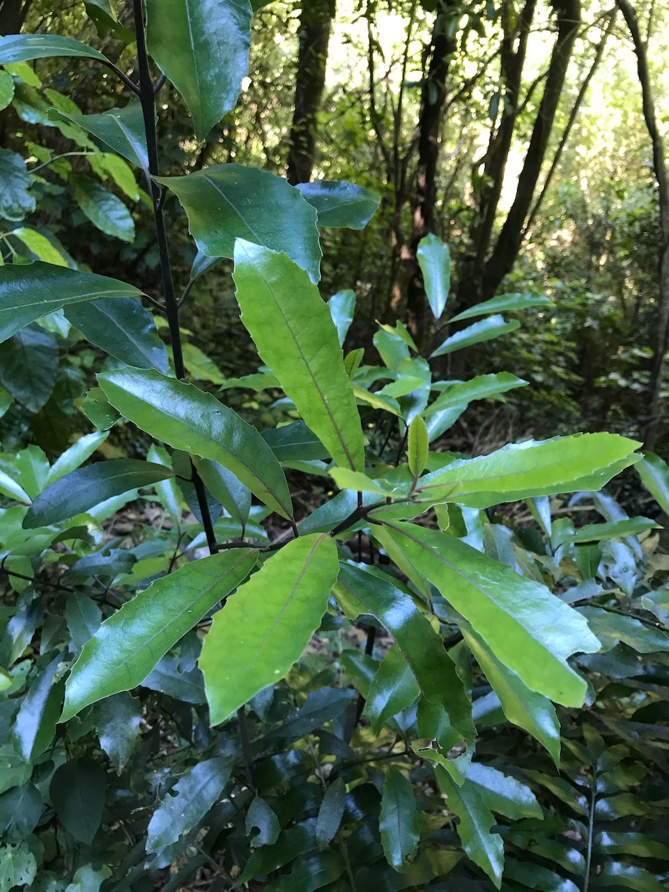 Pigeonwood (Hedycarya arborea) in Brook Waimārama Sanctuary, Nelson, New Zealand